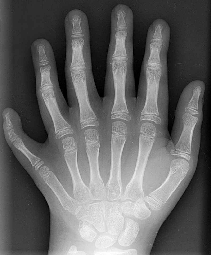 Conversion of a DICOM-format X-ray from a patient of User:Drgnu23, a ten year old male. This is the patient's left hand, posterior-anterior projection. Identifying tags and such have been stripped. The image is his, released under the GFDL. The image was subsequently altered by user:Grendelkhan, user: Raul654, and user:Solipsist.